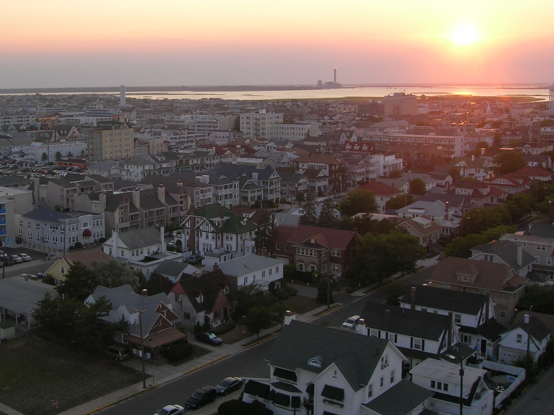 A picture of Ocean City, New Jersey, which I took with a Nikon camera whilst on a ferris wheel in Ocean City, NJ. That is not a factory nor a lighthouse in the background; it is a smoke stack for The Beesley's Point Power Generating Station.